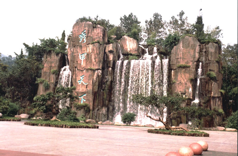 The Beauty of Emei is unsurpassed秀甲天下